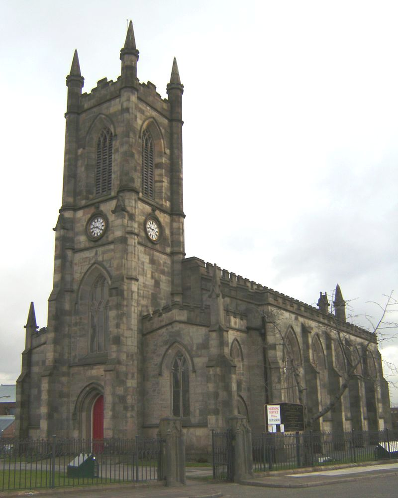 St Thomas's parish church, Pendleton, Greater Manchester, seen from the southwest